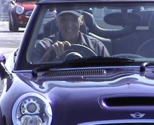 A photo of UK Precision Driver, Russ Swift, taken at a show at Haydock Park in 2005